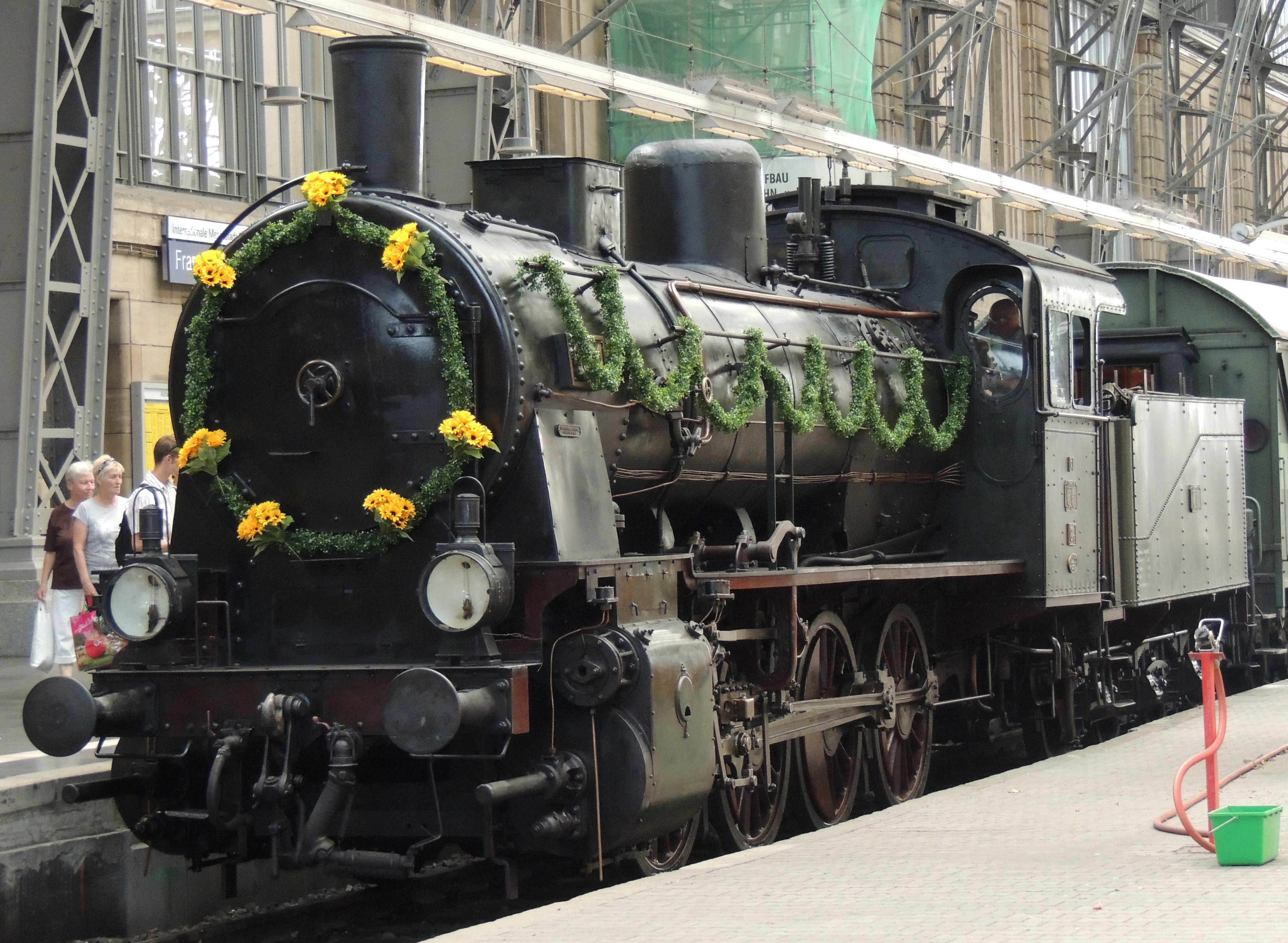 Prussian G 8 4981 "Mainz" of Railwail Museum Darmstadt-Kranichstein, Germany in Frankfurt Central Station on the 125 year jubilee of the station.